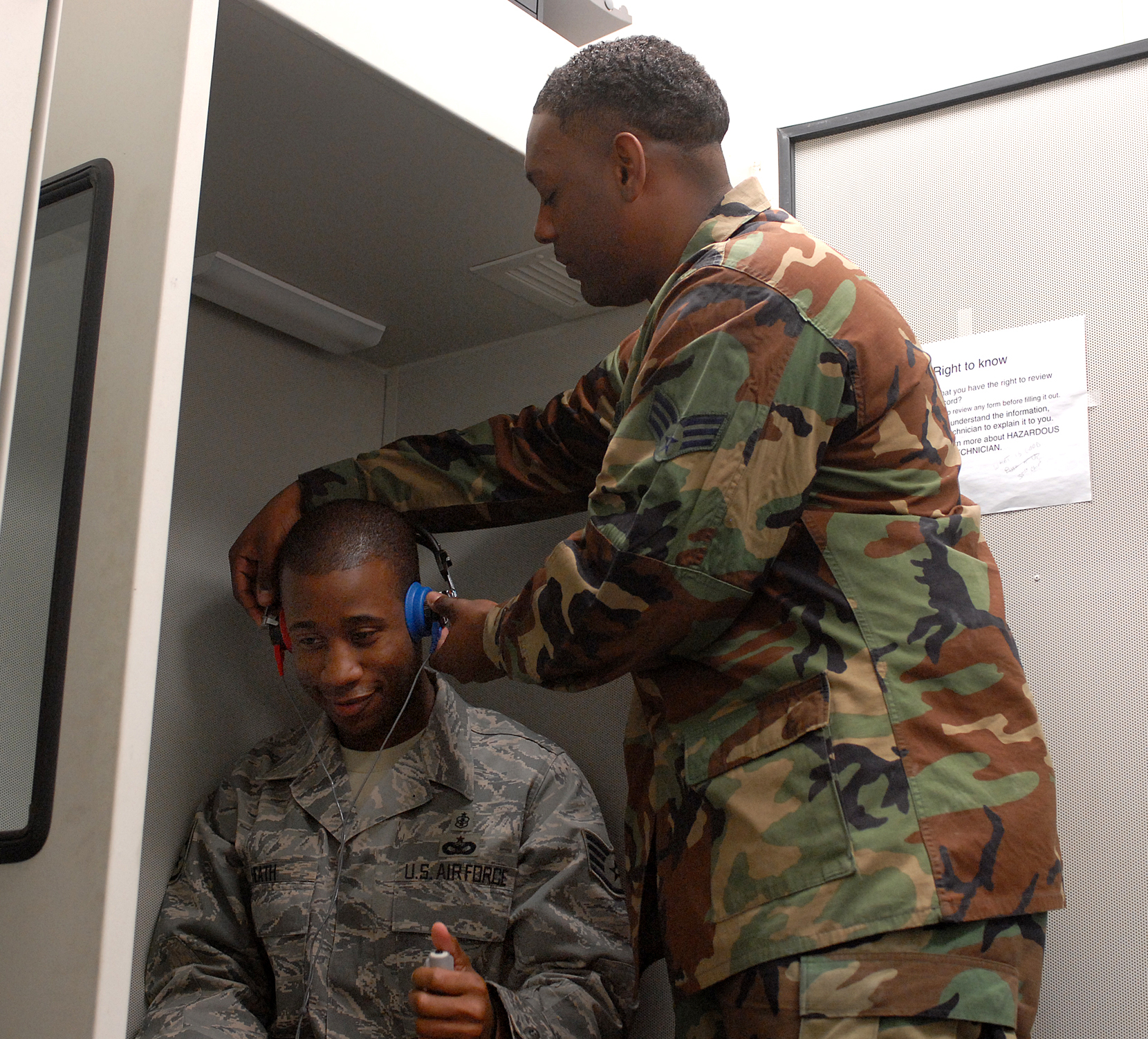 KUNSAN AIR BASE, Republic of Korea -- Senior Airman Otis Bush and Staff Sgt. Travis Heath, 8th Medical Operations Squadron public health technicians, performs hearing test procedures here March 28. The 8th Medical Group ensures all Airmen are medically fit to fight ensuring they can complete the Wolf Pack's three-tier mission.